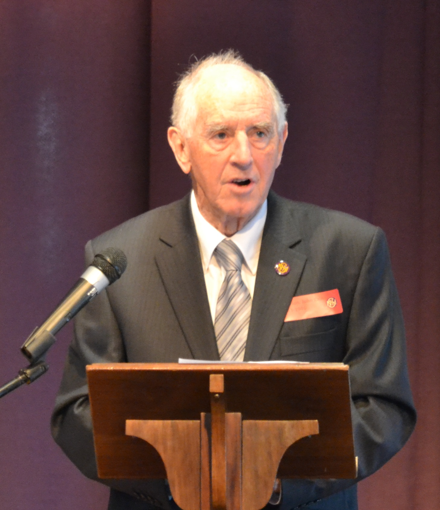 John Cain (Junior) at Northcote High School, June 2016